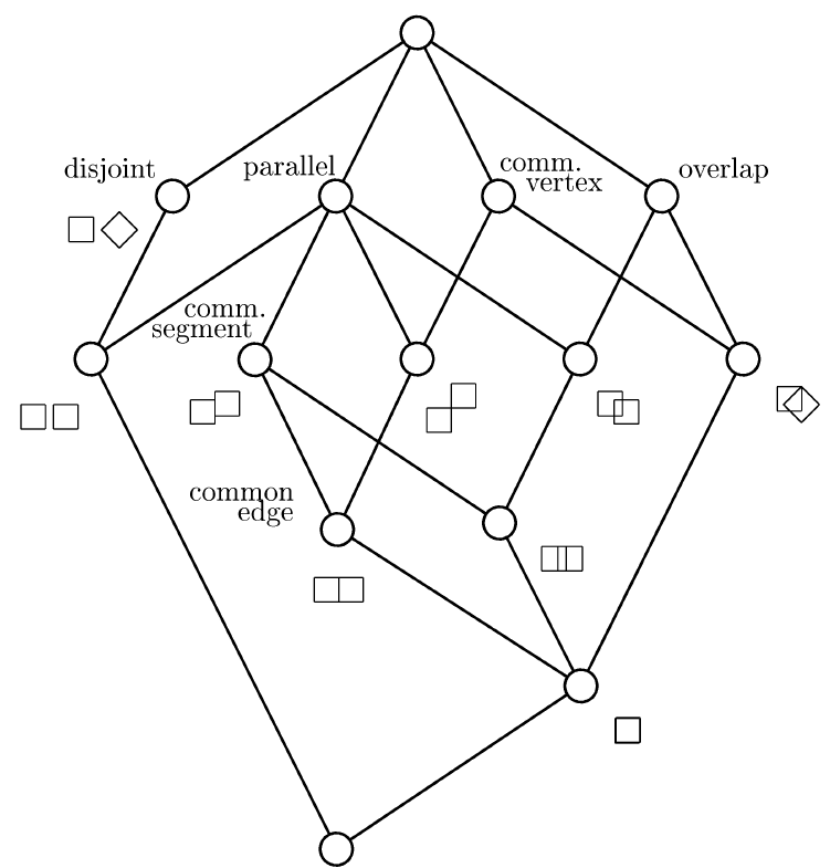 A concept lattice for pairs of squares in the plane.